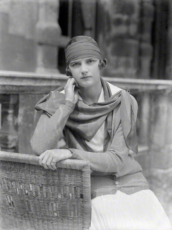 English tennis player Eileen Bennett